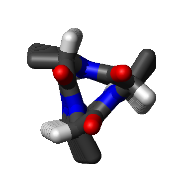 Top view of a 3_10 helix. Made with MOLMOL.